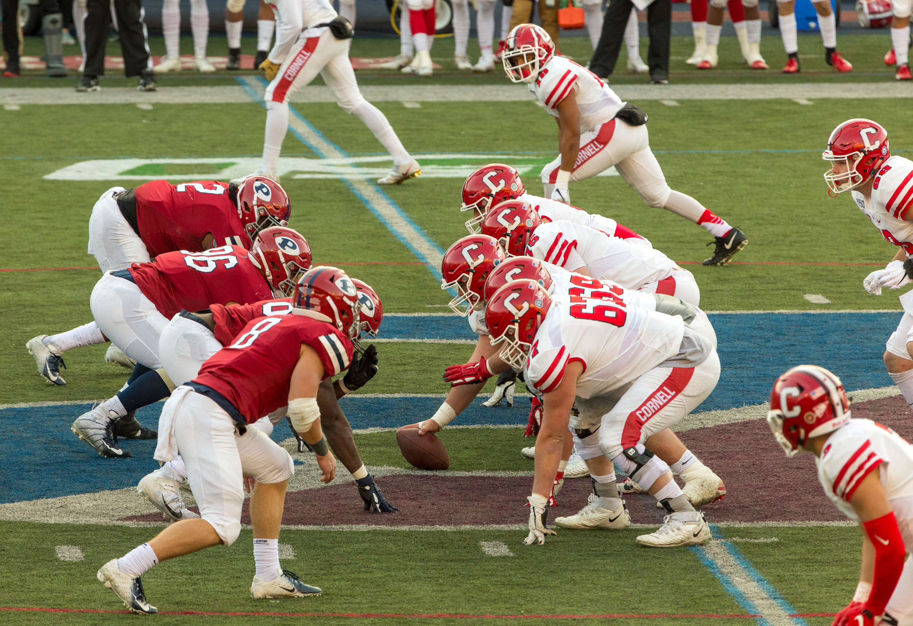 UPenn vs. Cornell football, November 9, 2019. Penn won, 21-20.